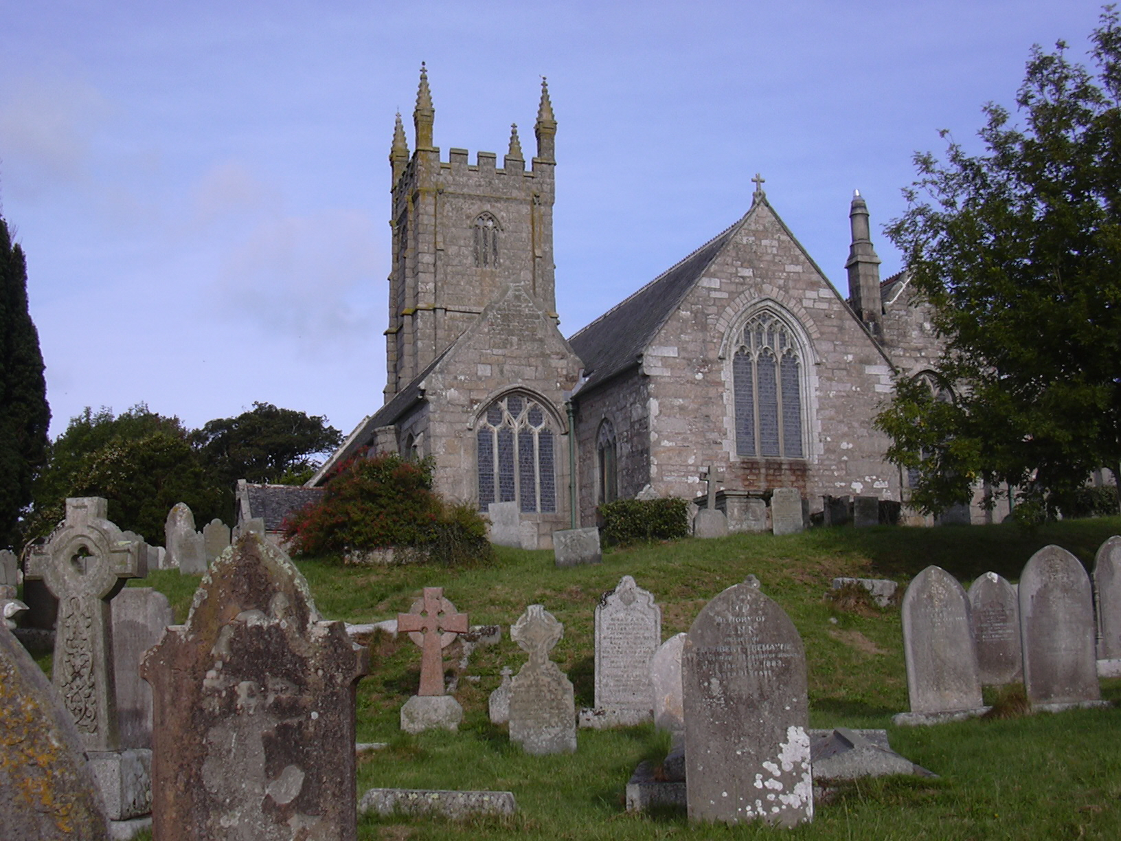 Picture of Saint Constantine Church in Constantine Village, Kerrier, Cornwall.